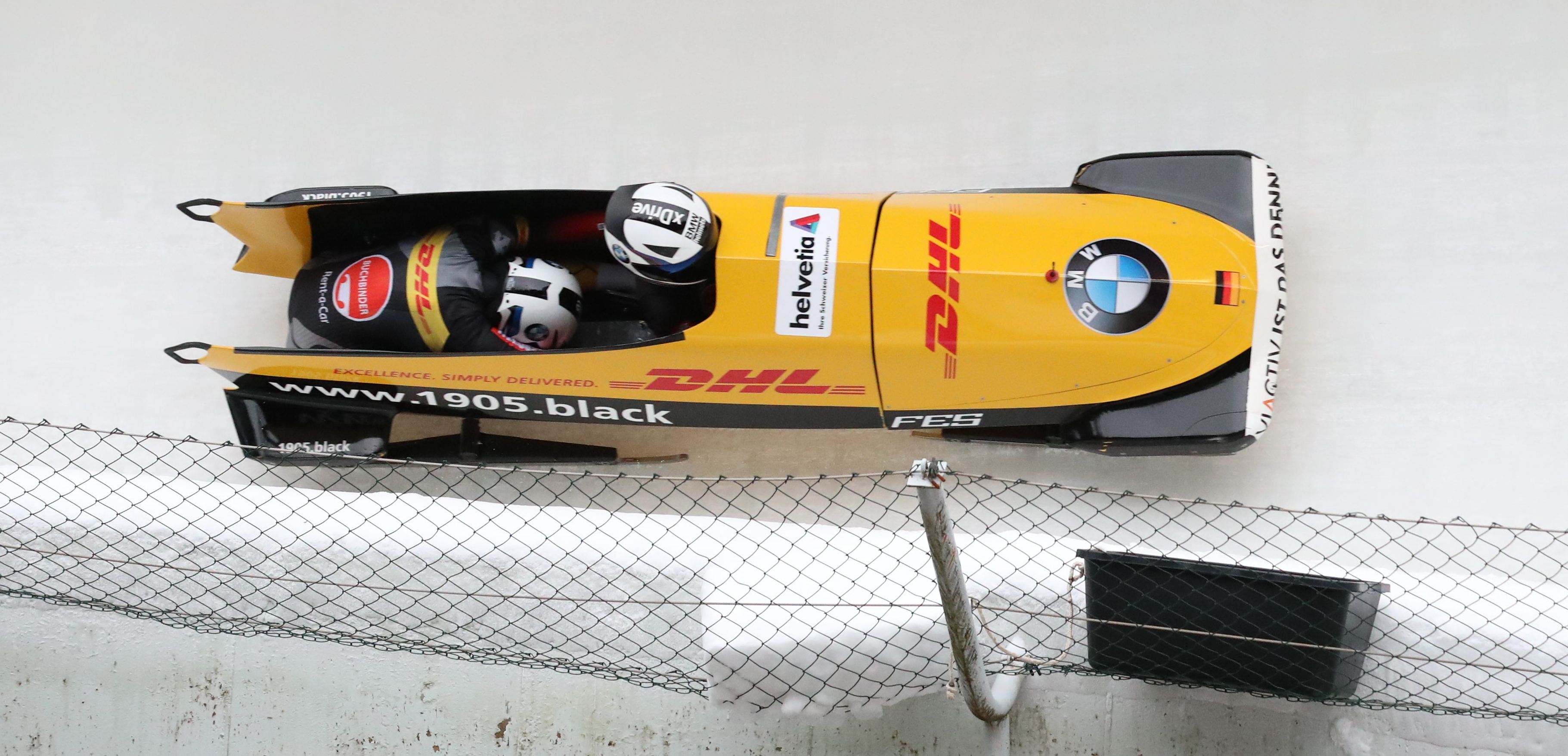 3rd run at the 2-woman bobsleigh at the Bobsleigh and Skeleton World Championships 2020 in Altenberg